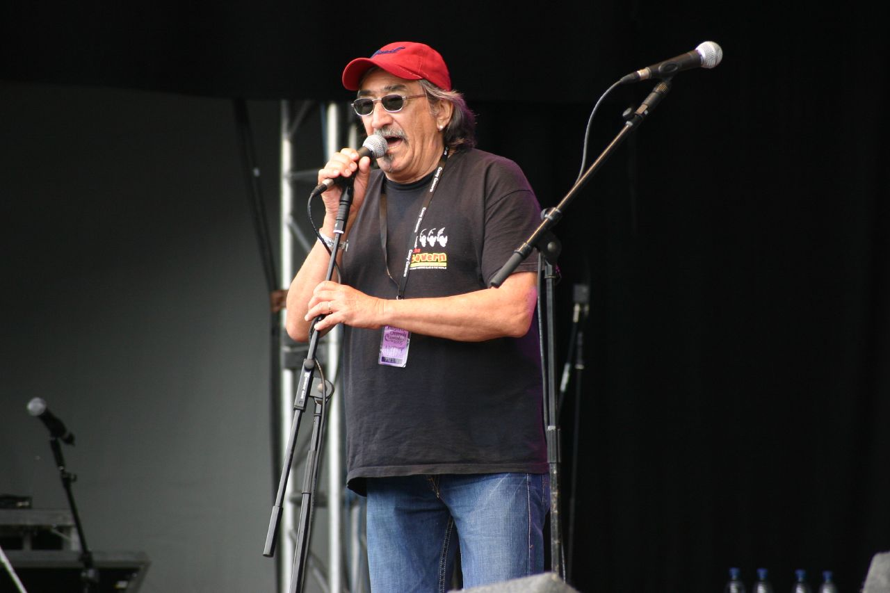 Jimmy Carl Black